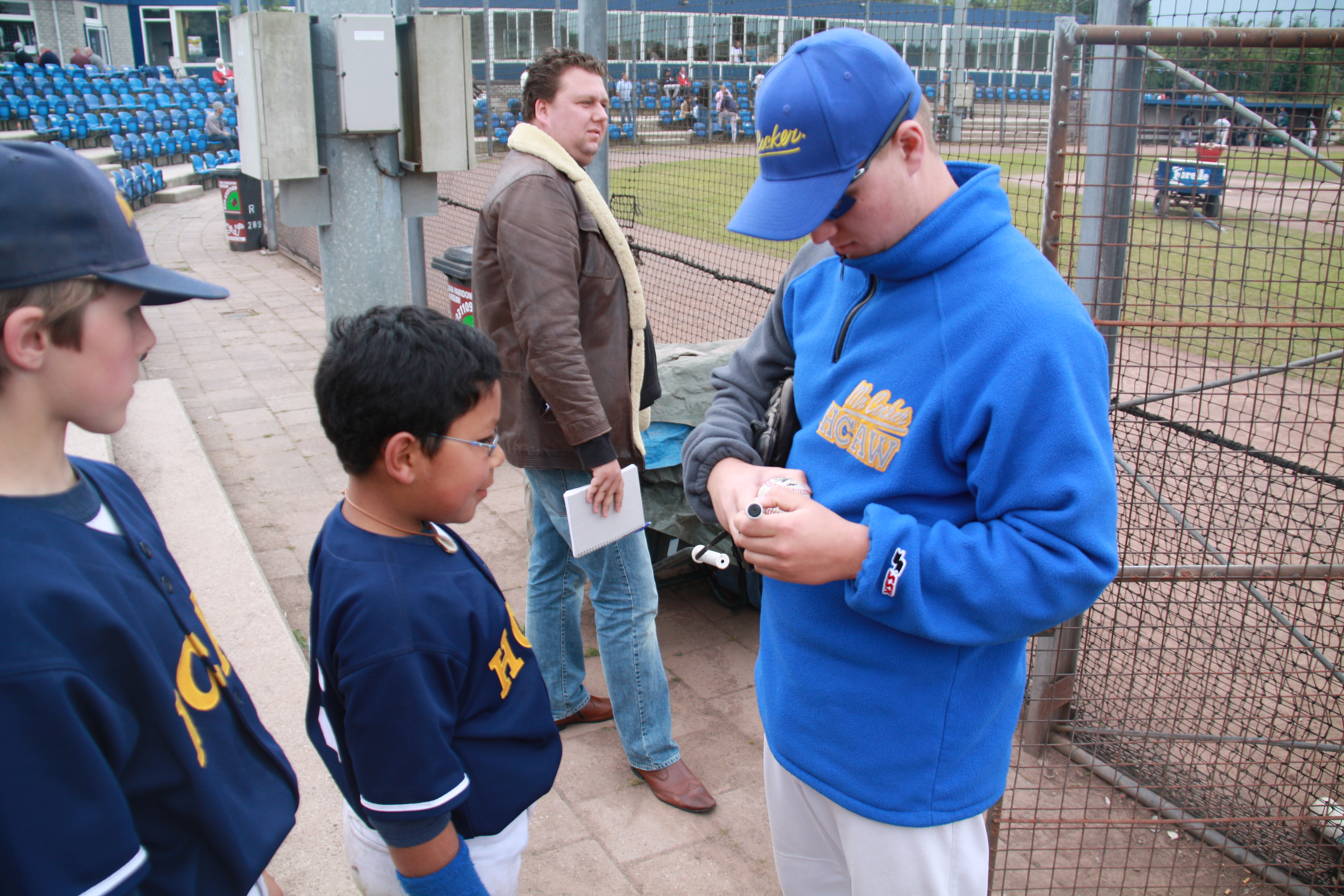 German national team and HCAW pitcher André Hughes signing ball for HCAW for junior player